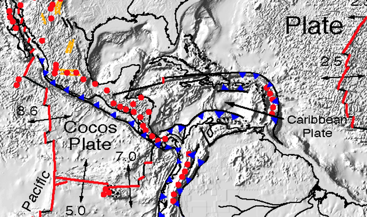 Detail of the Cocos and Caribbean plates from: Image:Plate tectonics map.gif.